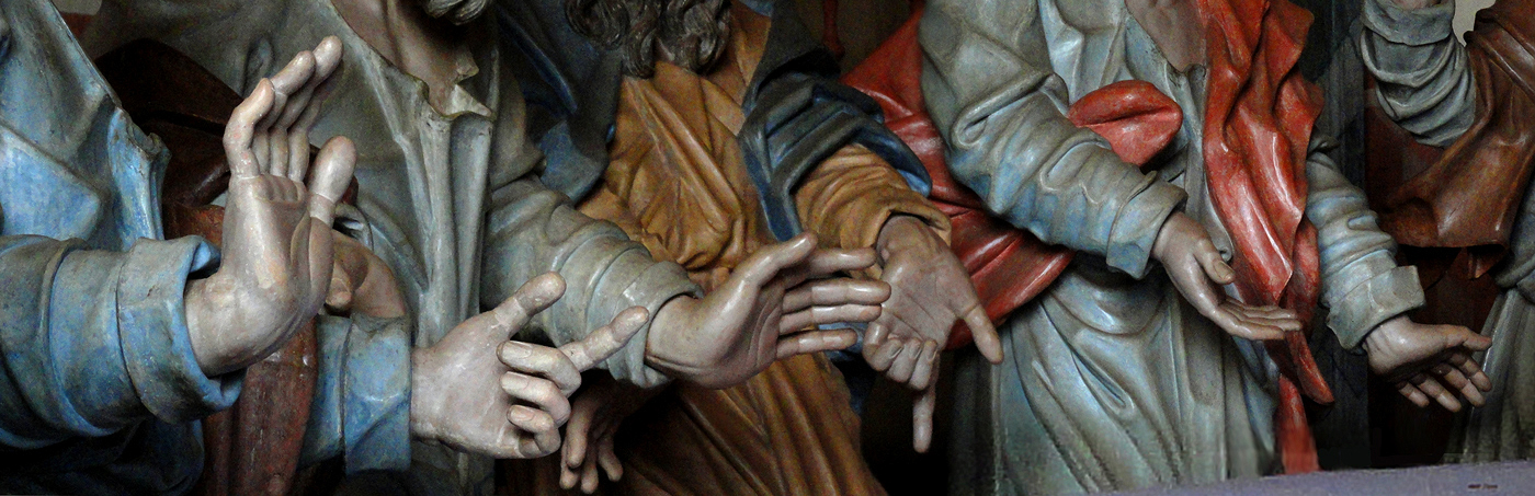 Aleijadinho (1738–1814) Alternative names legal name: Antônio Francisco LisboaDescriptionBrazilian sculptor and architectDate of birth/death 1730 or 1738 18 November 1814 Location of birth/death Ouro Preto Ouro PretoWork periodfrom 1752 until 1814 date QS:P,+1500-00-00T00:00:00Z/6,P580,+1752-00-00T00:00:00Z/9,P582,+1814-00-00T00:00:00Z/9Work location Minas Gerais Authority control : Q379714 VIAF: 52484559 ISNI: 0000 0001 2133 1560 ULAN: 500069456 LCCN: n50072231 WGA: LISBOA, Antonio Francisco WorldCat creator QS:P170,Q379714 Detalhe das mãos dos apóstolos na cena da Santa Ceia, Capela 1, Santuário de Congonhas, Brasil. Obra de Aleijadinho.